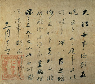 Model letter by Emperor Takakura (高倉天皇宸翰御消息, Takakura tennō shinkan goshōsoku). Only extant letter of Emperor Takakura. One hanging scroll. Located at Ninna-ji, Kyoto, Japan. The letter has been designated as National Treasure of Japan in the category ancient documents.